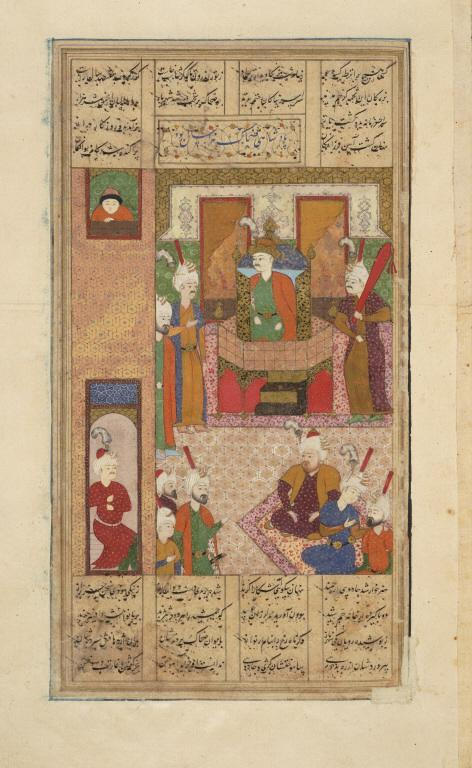 Zahhak enthroned.